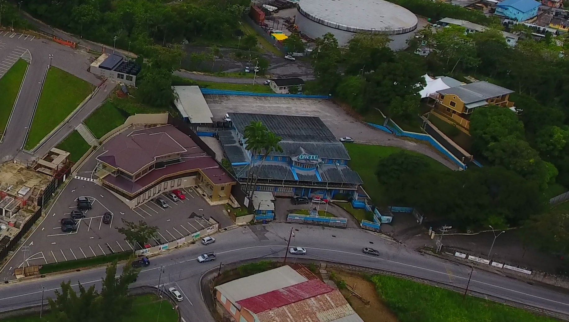 OWTU headquarter, Circular Road, San Fernando, Trinidad and Tobago. Photo taken as part of the Southern Trinidad Aerial Photo Project, a small project sponsored by WMDE. Drone used: DJI Phantom 4. Snapshot taken from video footage via VLC, then cropped with IrfanView.